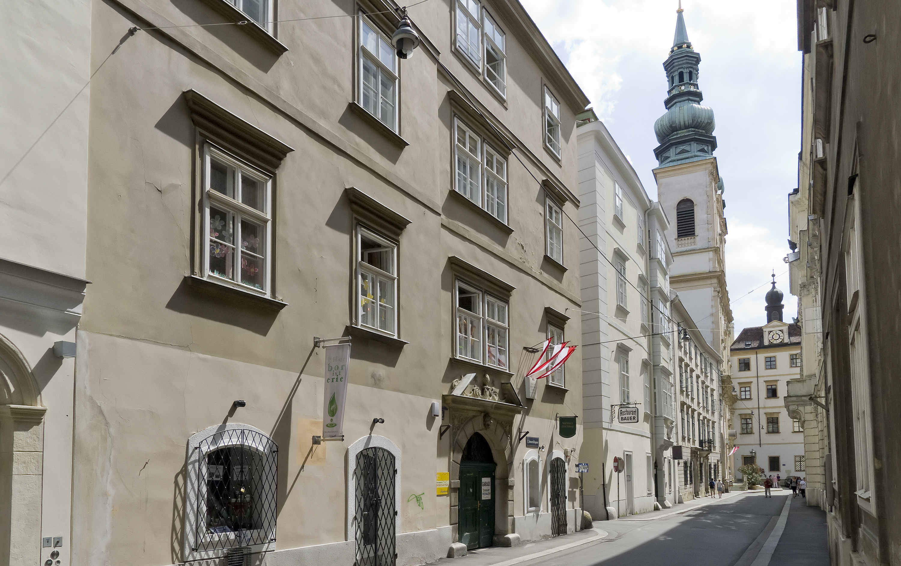 Building Sonnenfelsgasse 15, Vienna 1